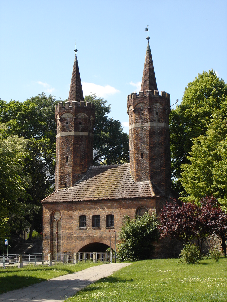 Foto by Politykstargard